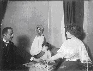 Fake doll in a séance of the medium Linda Gazzera.